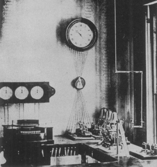 William Francis Channing (1820-1901) Fire-Alarm System 1852 invention